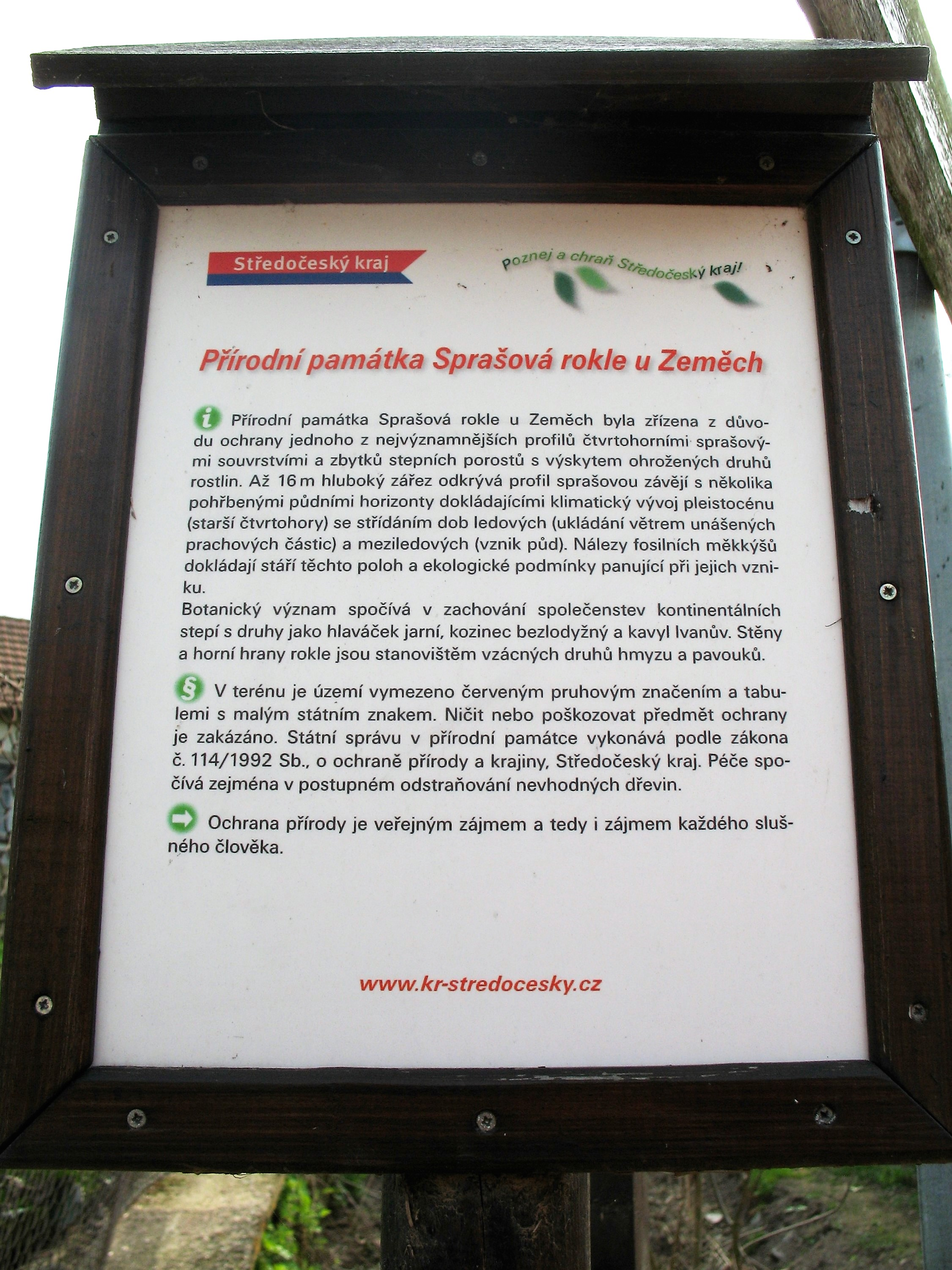 Natural monument Sprašová rokle u Zeměch